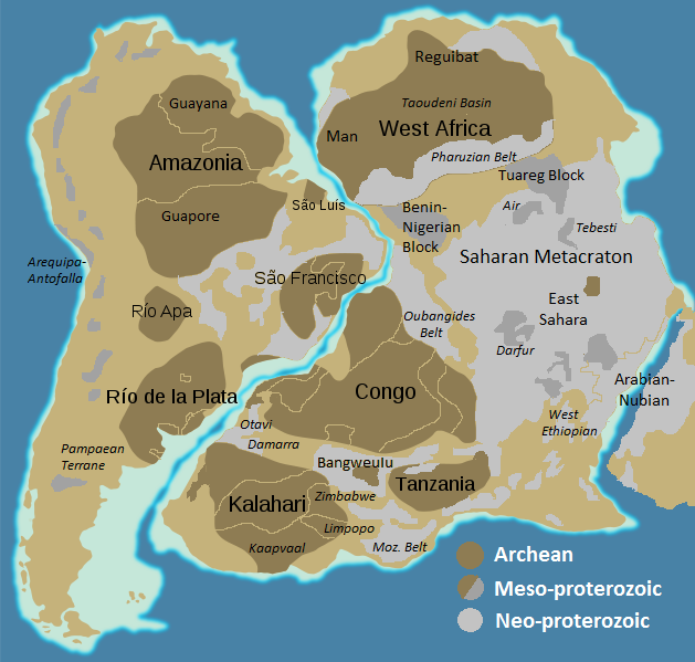 This is a derivative work of user Voudloper's original svg file. CC-BY-SA licensed. I have added another set of geologiclal features from South America to this map. Compare to my recent map